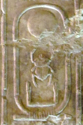 Cartouche 68, Abydos King List. Temple of Seti I, Abydos, Egypt